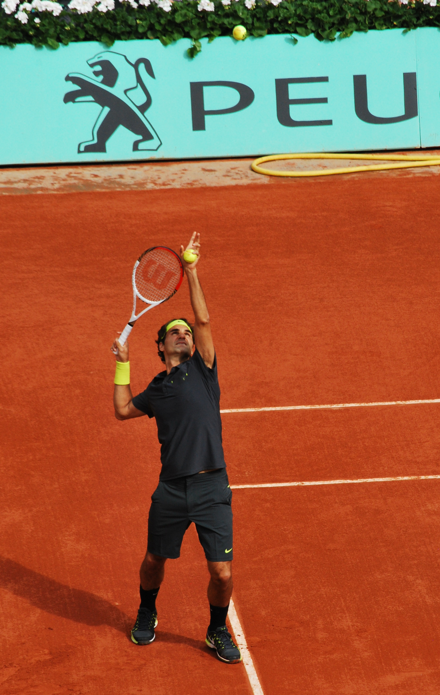 Roger Federer serve in Wimbledon 2012.